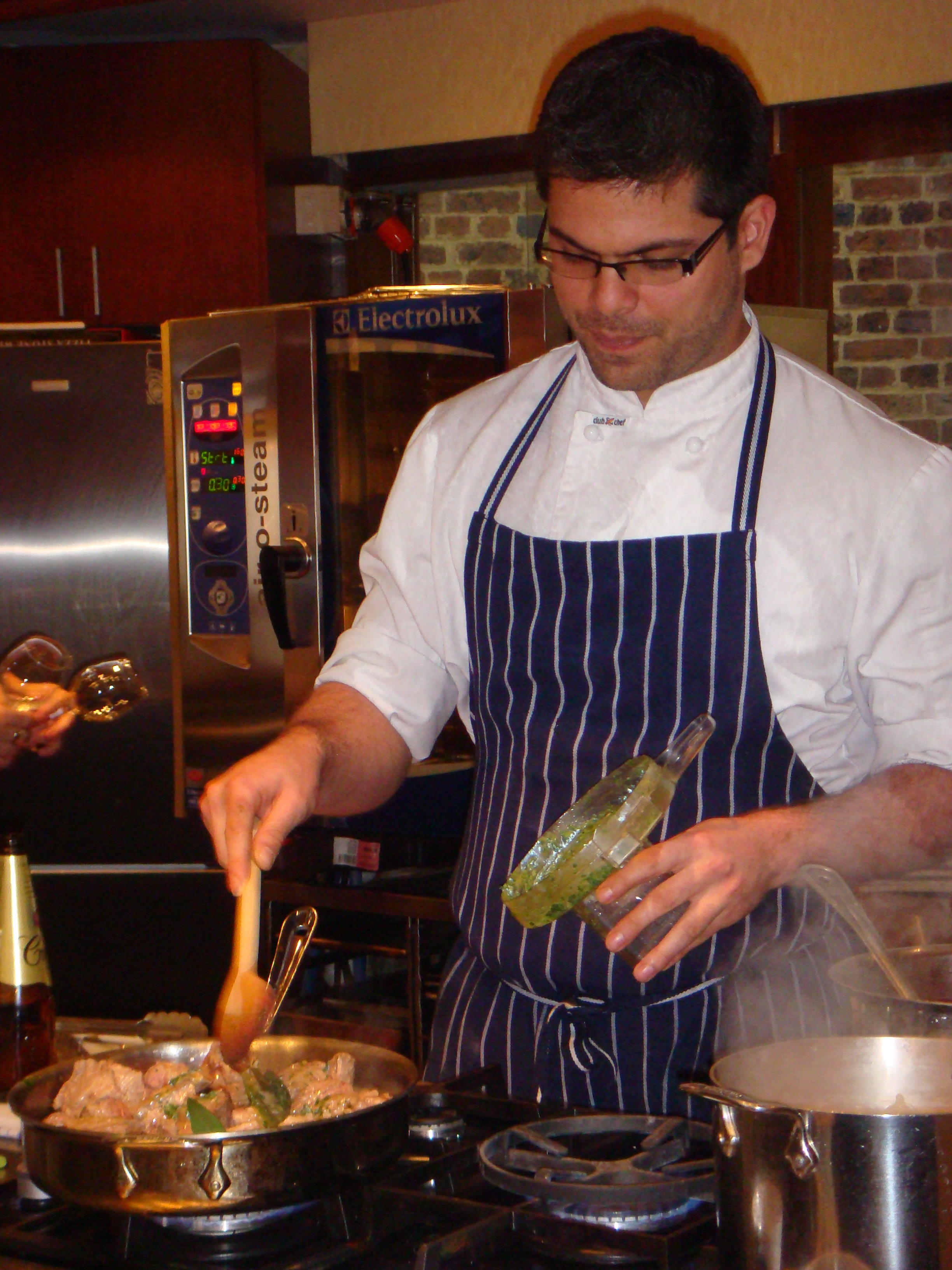 Alejandro Saravia hosts Peruvian Cuisine cooking classes at the Electrolux Cooking School in Melbourne